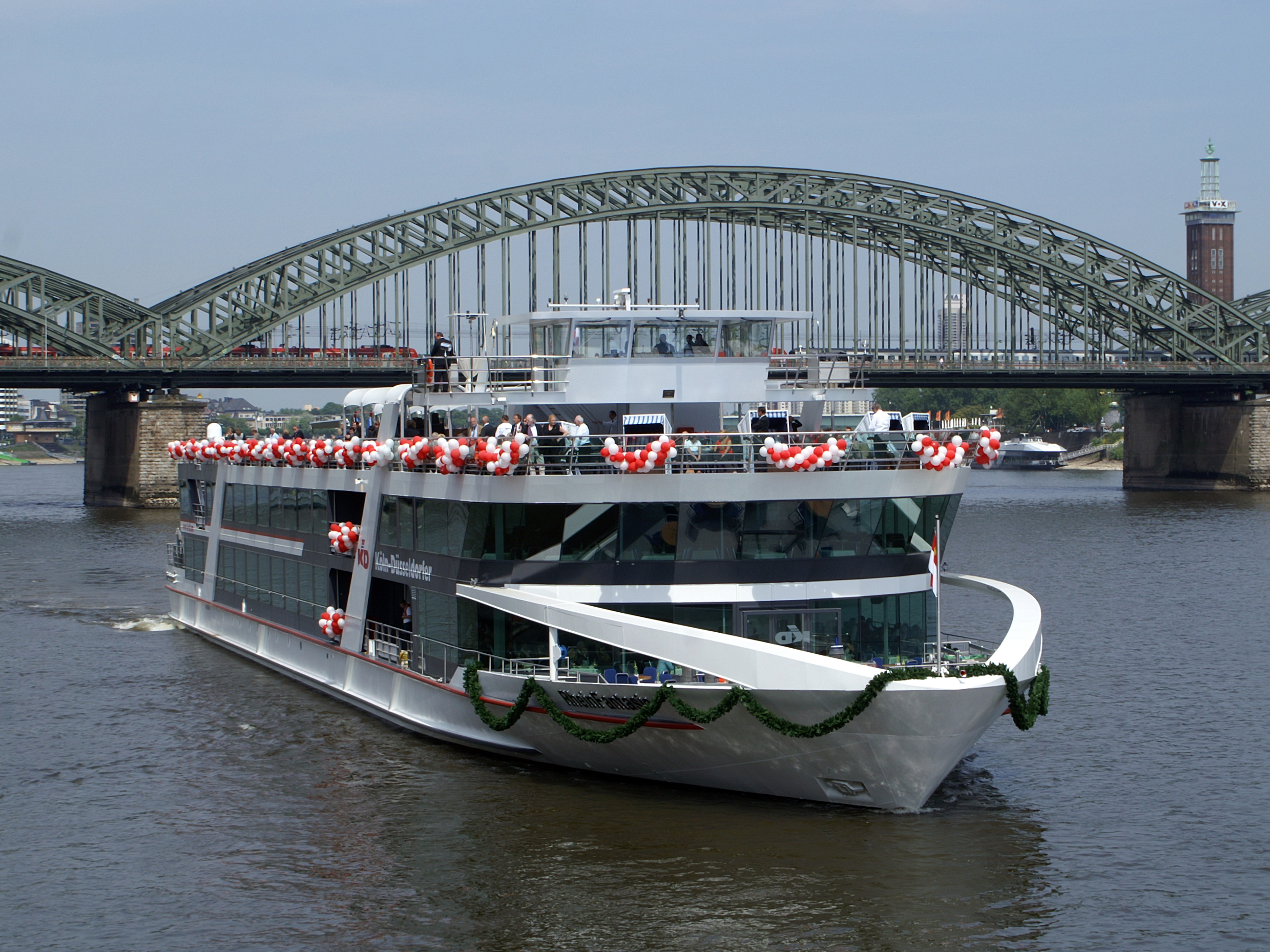 Day trip ship RheinFantasie on her Maiden voyage in cologne.